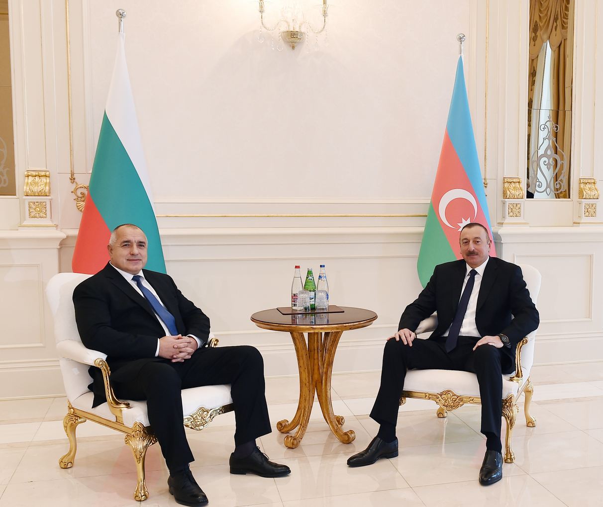 Ilham Aliyev met with Bulgarian Prime Minister Boyko Borisov